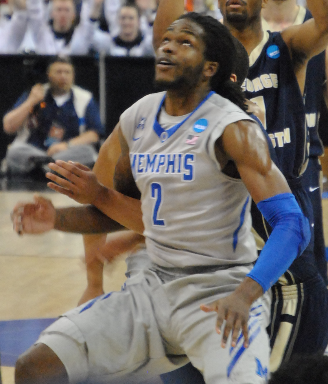 Shaq Goodwin boxes out in the throw lane